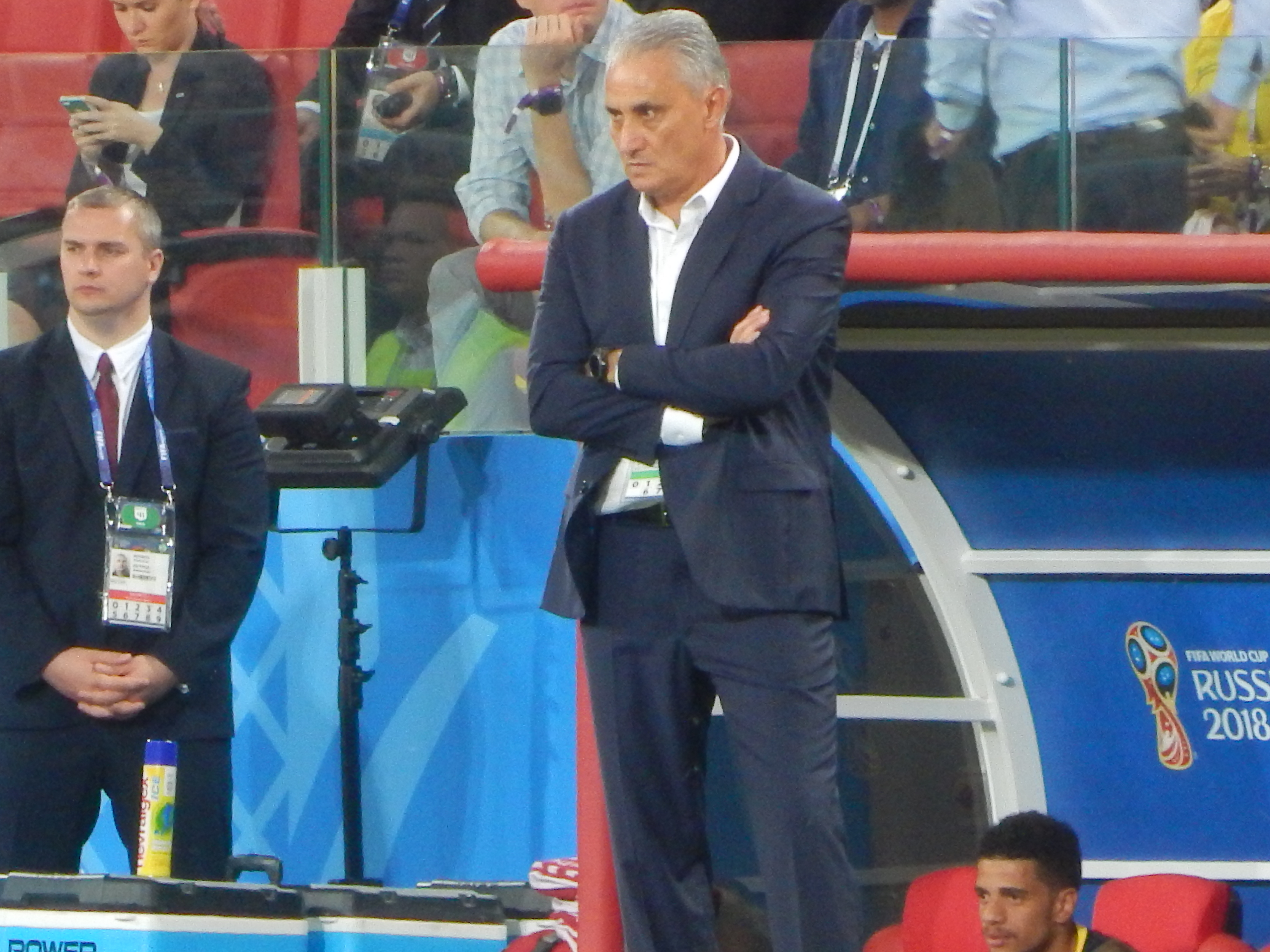 FIFA World Cup 2018, Group E, Serbia vs. Brazil